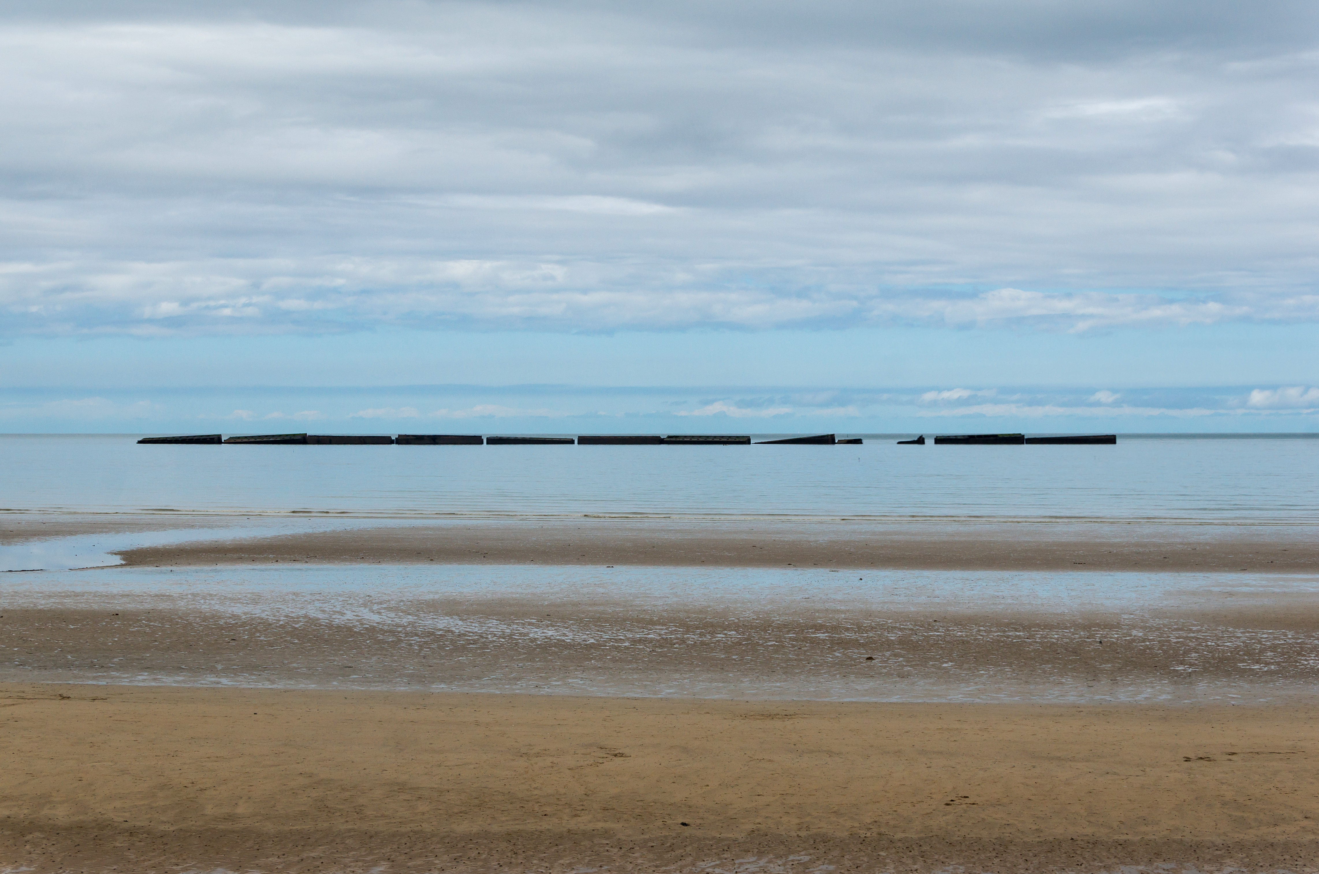 Remains of the "Mulberry", the artificial harbour built after the Dday, in front of the beach of Arromanches-les-Bains, Calvados, Normandy, France.